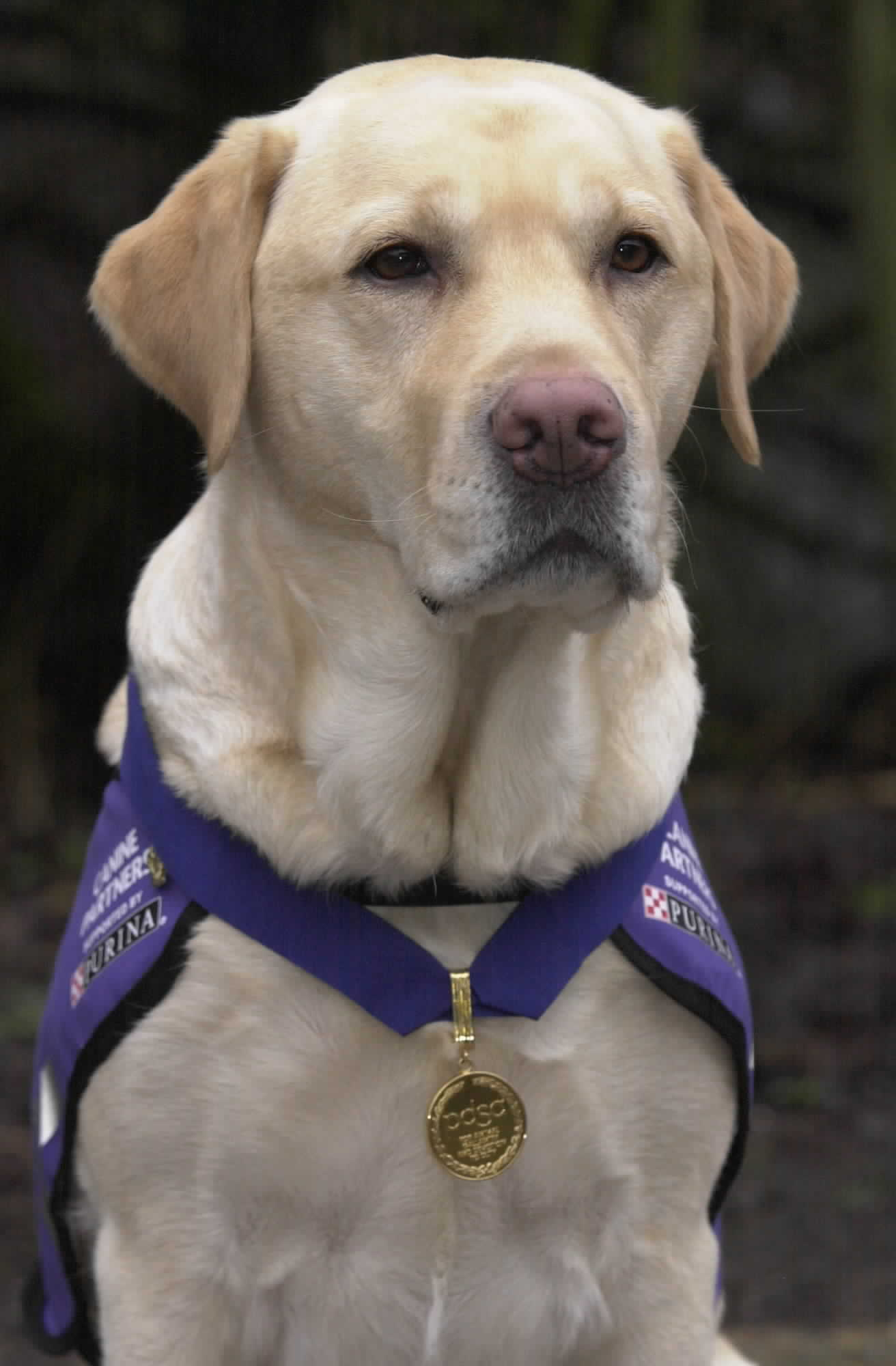 Endal (13 December 1995 – 13 March 2009) was a male Labrador retriever in Britain whose abilities as a service dog and as an ambassador for service dog charitable work have received worldwide news media coverage.